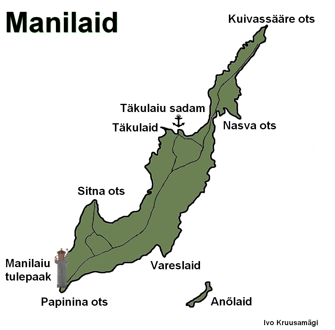 Manilaid is a little island in Estonia. Täkulaiu sadam = Harbour of Täkulaiu Manilaiu tulepaak = Small lighthouse of Manilaiu (tulepaak is a type of lighthouse that is visable under 10 nautical miles)